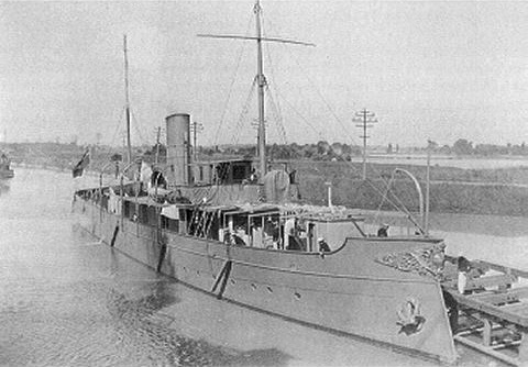 The Vigilant was an armed 3rd class cruiser employed as a Canadian Great Lakes Fisheries protection vessel.